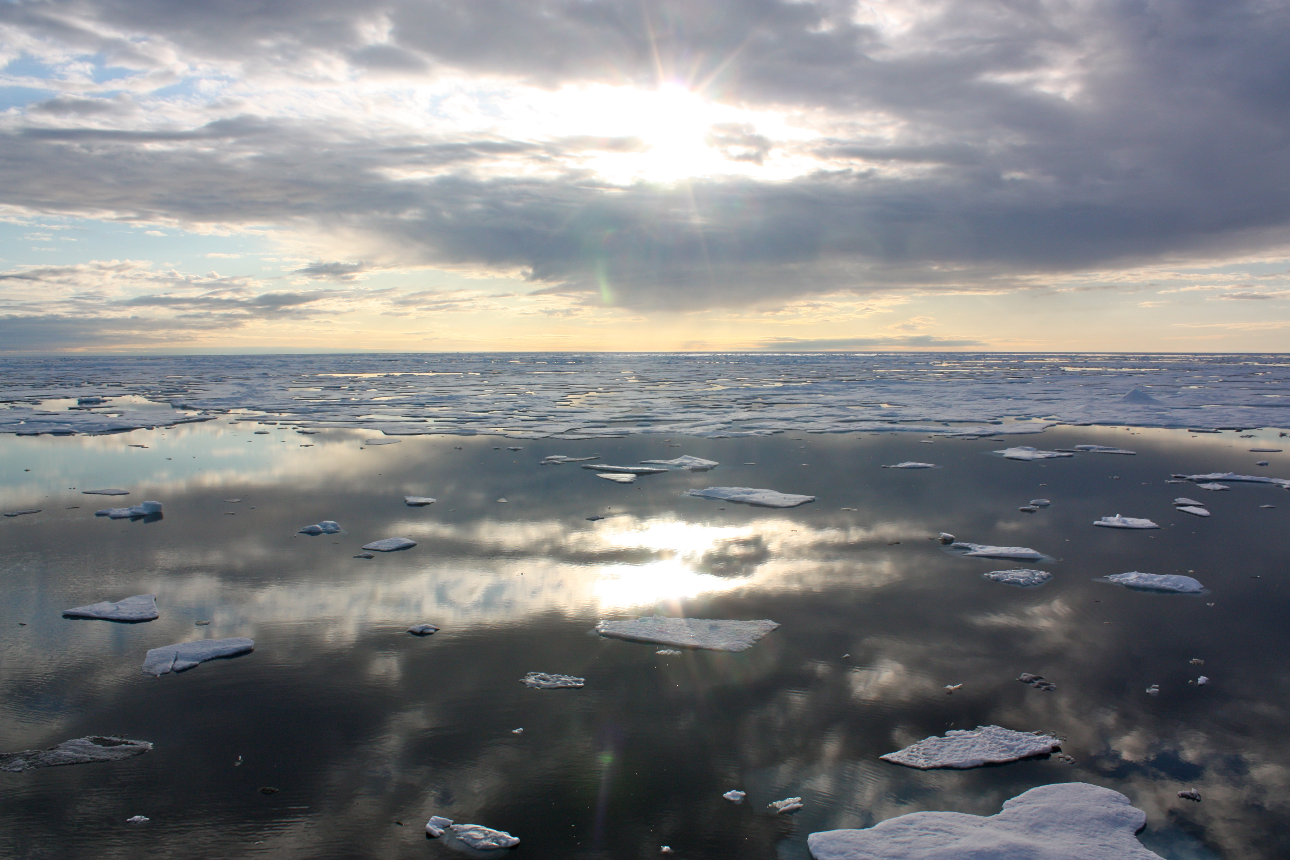 The U.S. Coast Guard Cutter Healy encountered only small patches of sea ice in the Chukchi Sea during the final days collecting ocean data for the 2011 ICESCAPE mission. The ICESCAPE mission, or "Impacts of Climate on Ecosystems and Chemistry of the Arctic Pacific Environment," is a NASA shipborne investigation to study how changing conditions in the Arctic affect the ocean's chemistry and ecosystems. The bulk of the research took place in the Beaufort and Chukchi seas in summer 2010 and 2011. Credit: NASA/Kathryn Hansen NASA image use policy. NASA Goddard Space Flight Center enables NASA’s mission through four scientific endeavors: Earth Science, Heliophysics, Solar System Exploration, and Astrophysics. Goddard plays a leading role in NASA’s accomplishments by contributing compelling scientific knowledge to advance the Agency’s mission. Follow us on Twitter Like us on Facebook Find us on Instagram